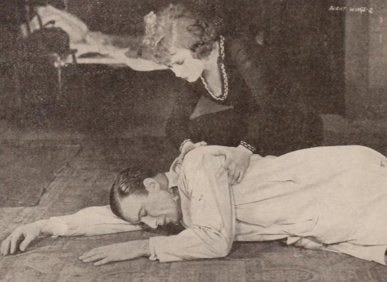 Josephine Hill and Frank Mayo from the 1920 film, "Burnt Wings"